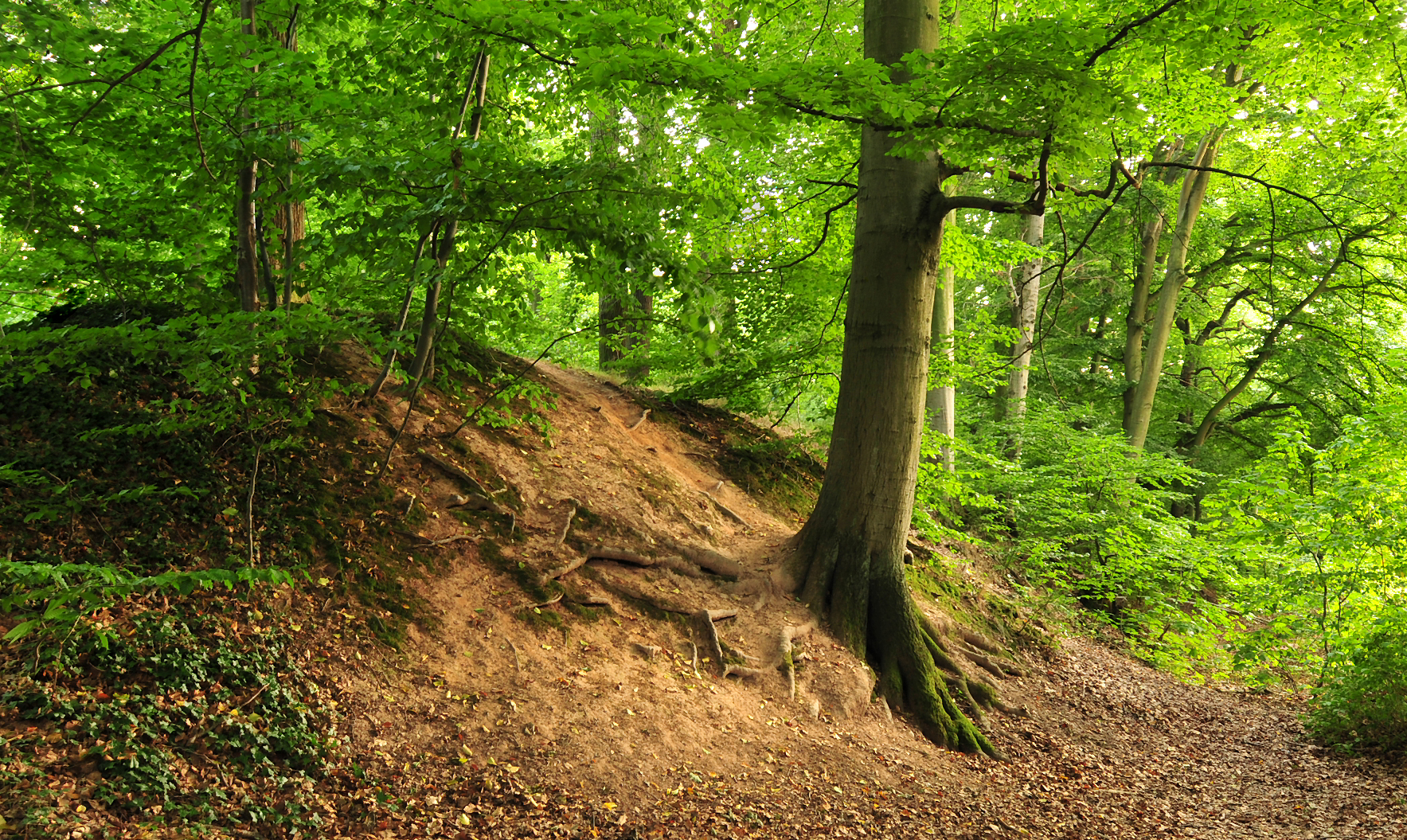 Embarkment all around the German castle Marienburg near Hanover, Lower Saxony, Germany.